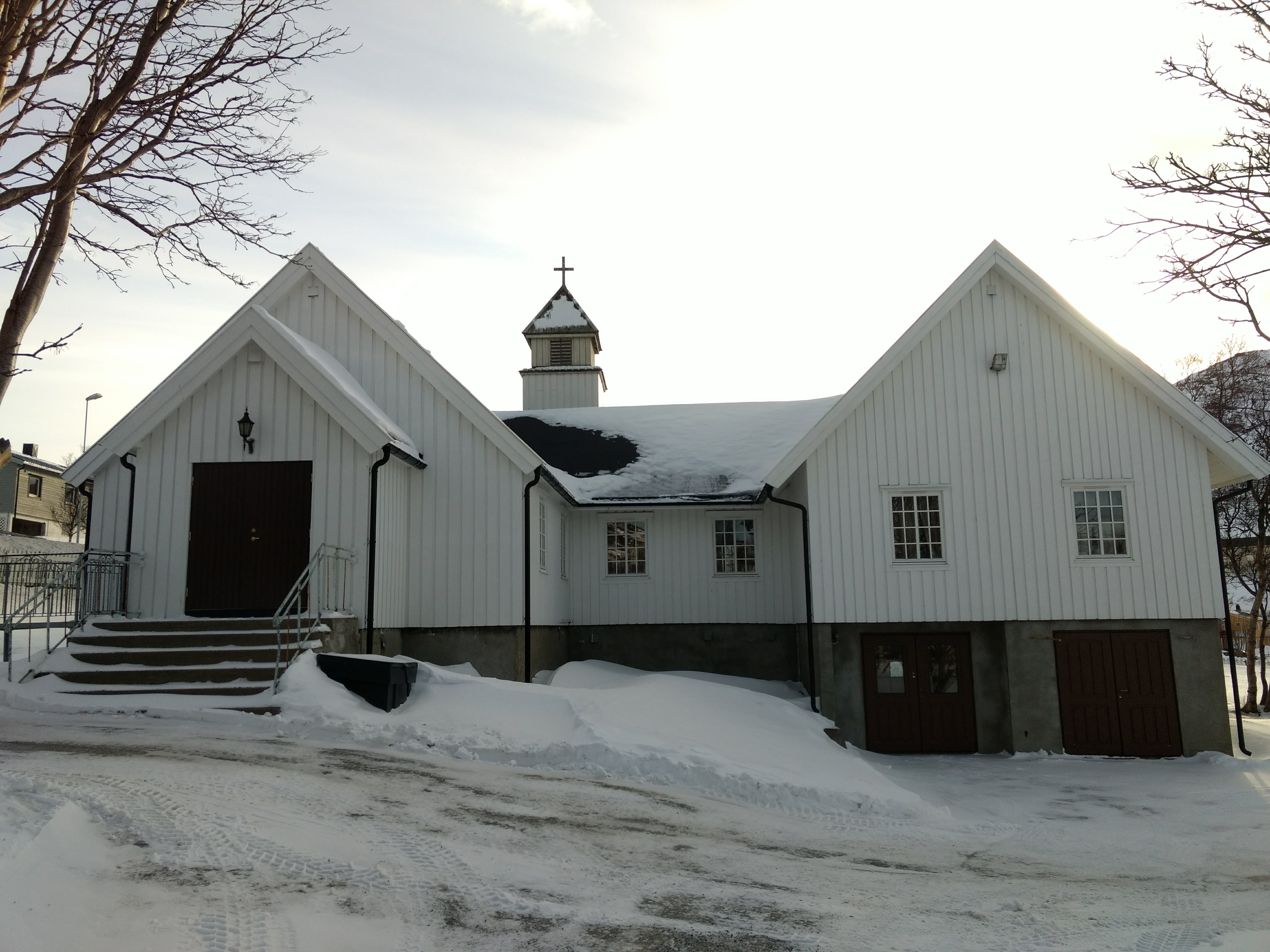 Indrefjord/Rypefjord chapell in Rypefjord, Hammerfest